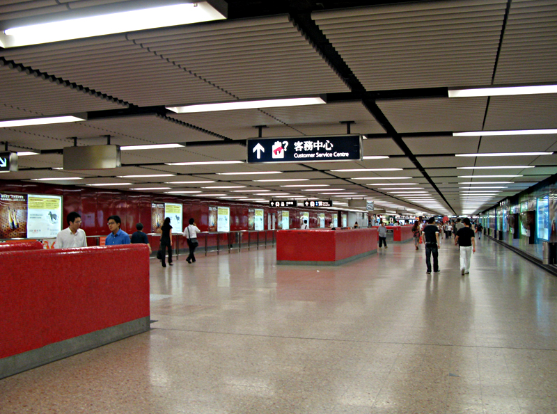 HKMTR Central Station